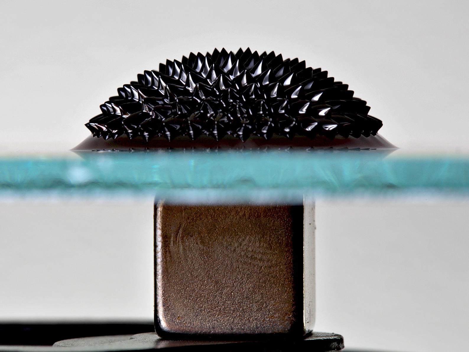 Ferrofluid on a reflective glass plate under the influence of a strong magnetic field.